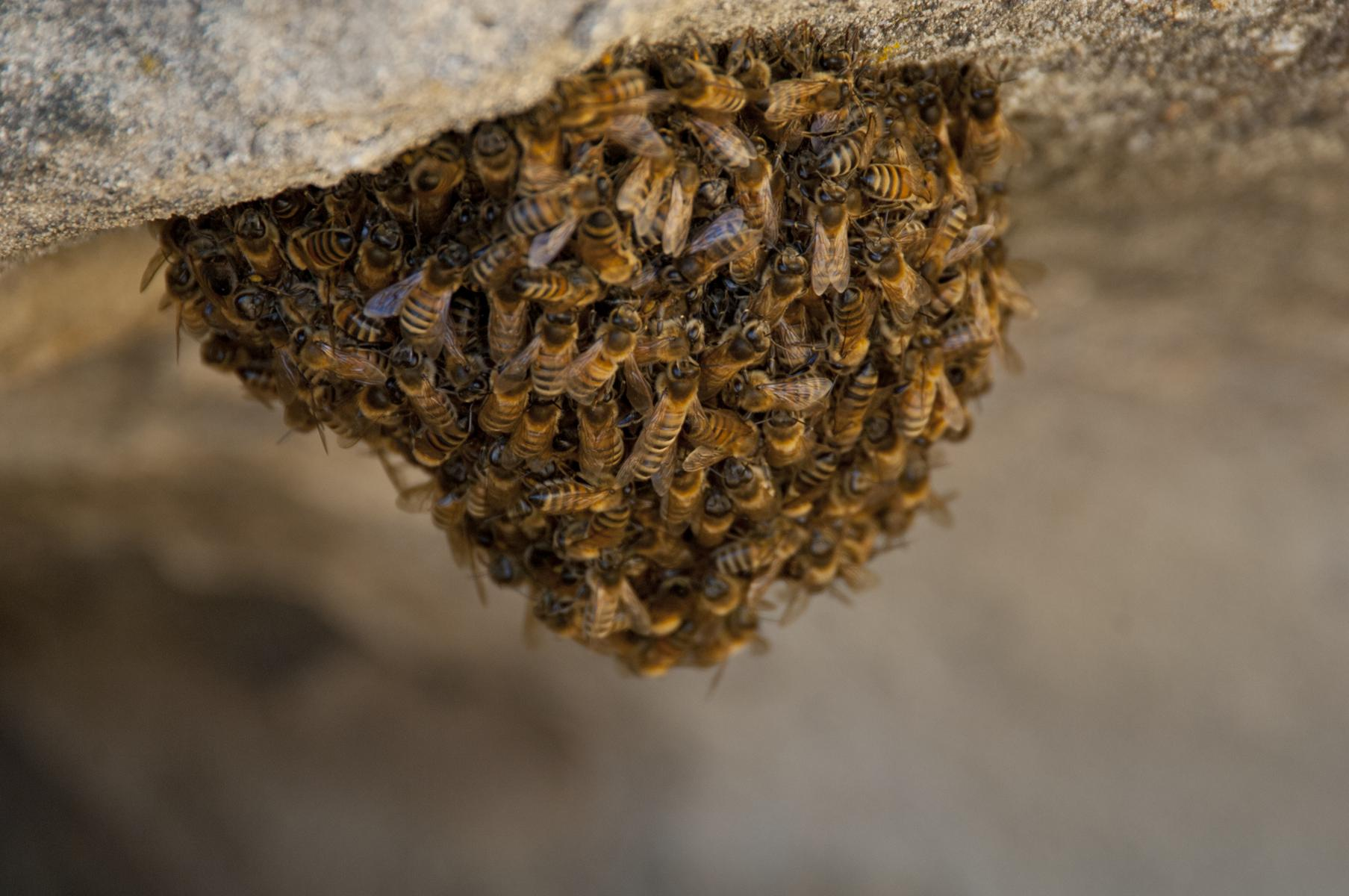 Photo Credit: Sarah Swenty/USFWS